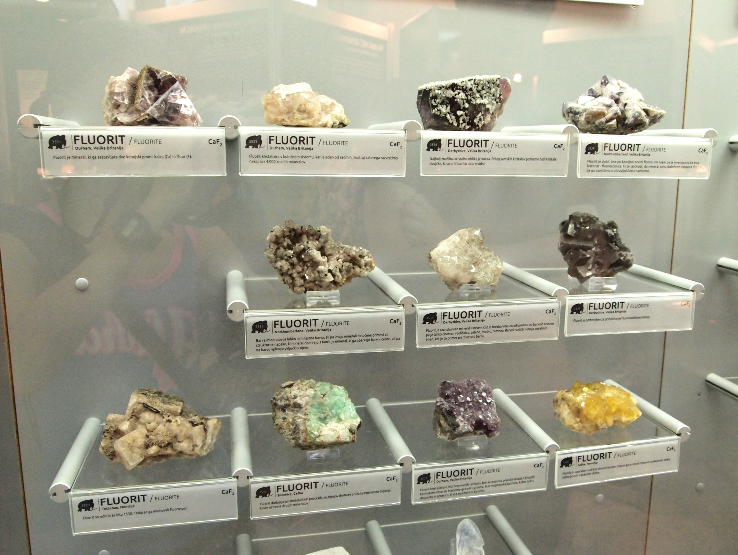 Fluorite in Natural History Museum of Slovenia. This photograph was taken with a Olympus E-PL1.